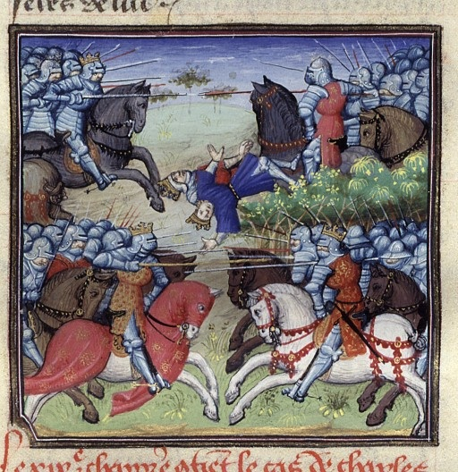 Battle of Tagliacozzo